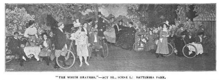 Scene from 1897 New York production of "The White Heather", set in Battersea Park (Act III, Scene I). Appeared in January 3, 1898 issue of The Illustrated American.